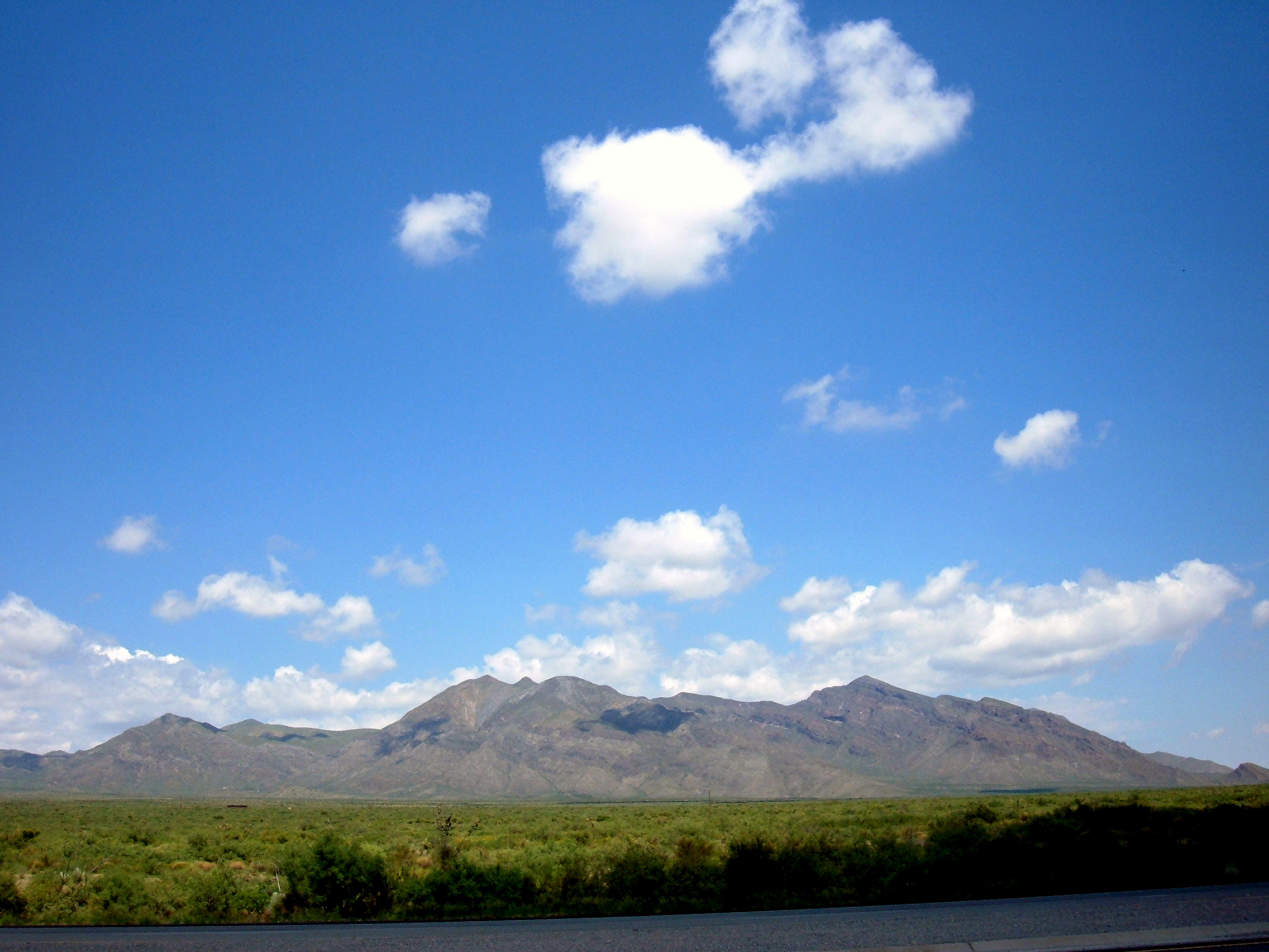 Eastern view of the San Andres Mountains near Las Cruces, New Mexico. Photographed from US Highway 70 about two miles east of the White Sands Missile Range headquarters.